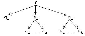 a hierarchy of program artifacts, used in feature-based program synthesis